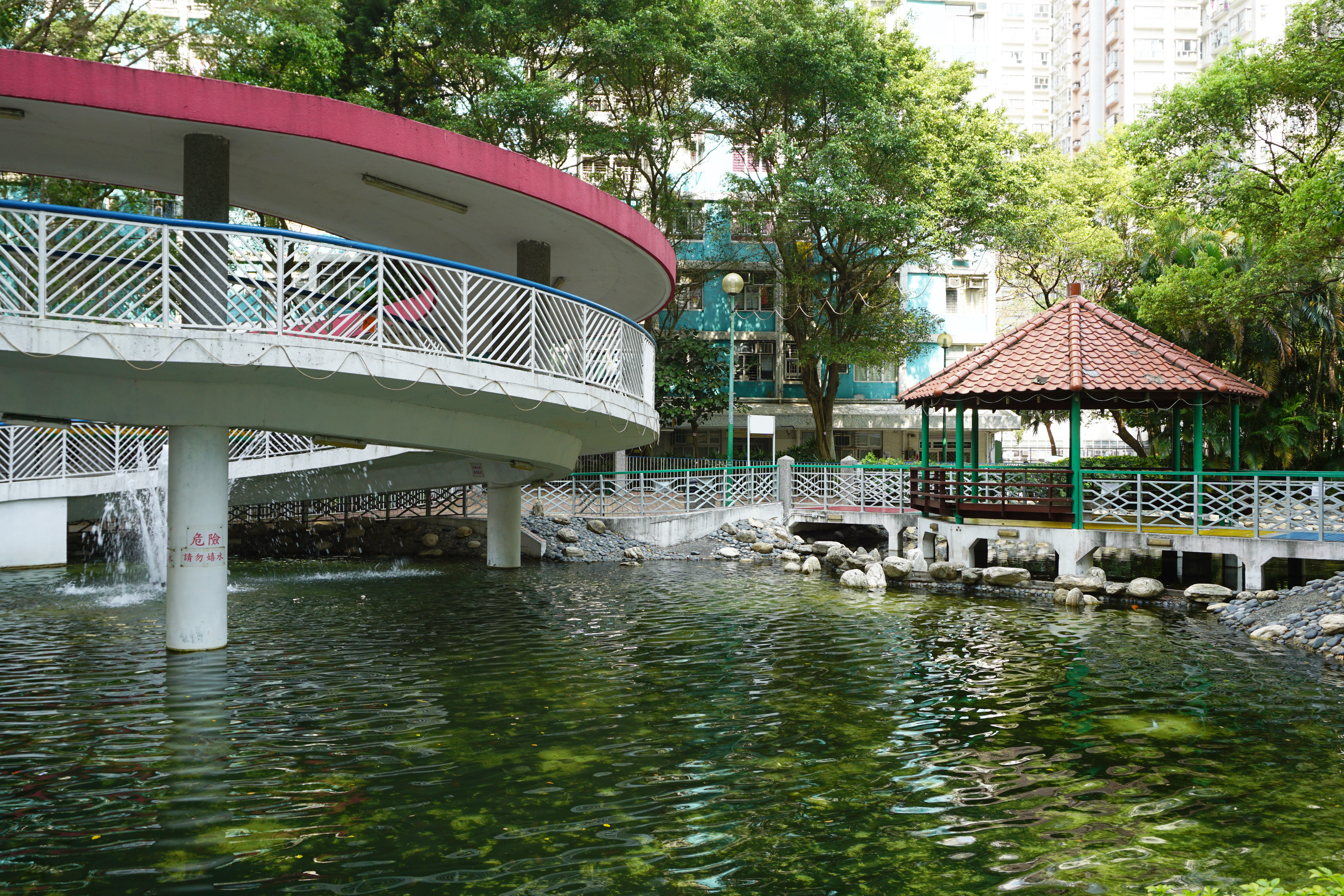 Tai Ping Estate in Sheung Shui, Hong Kong.